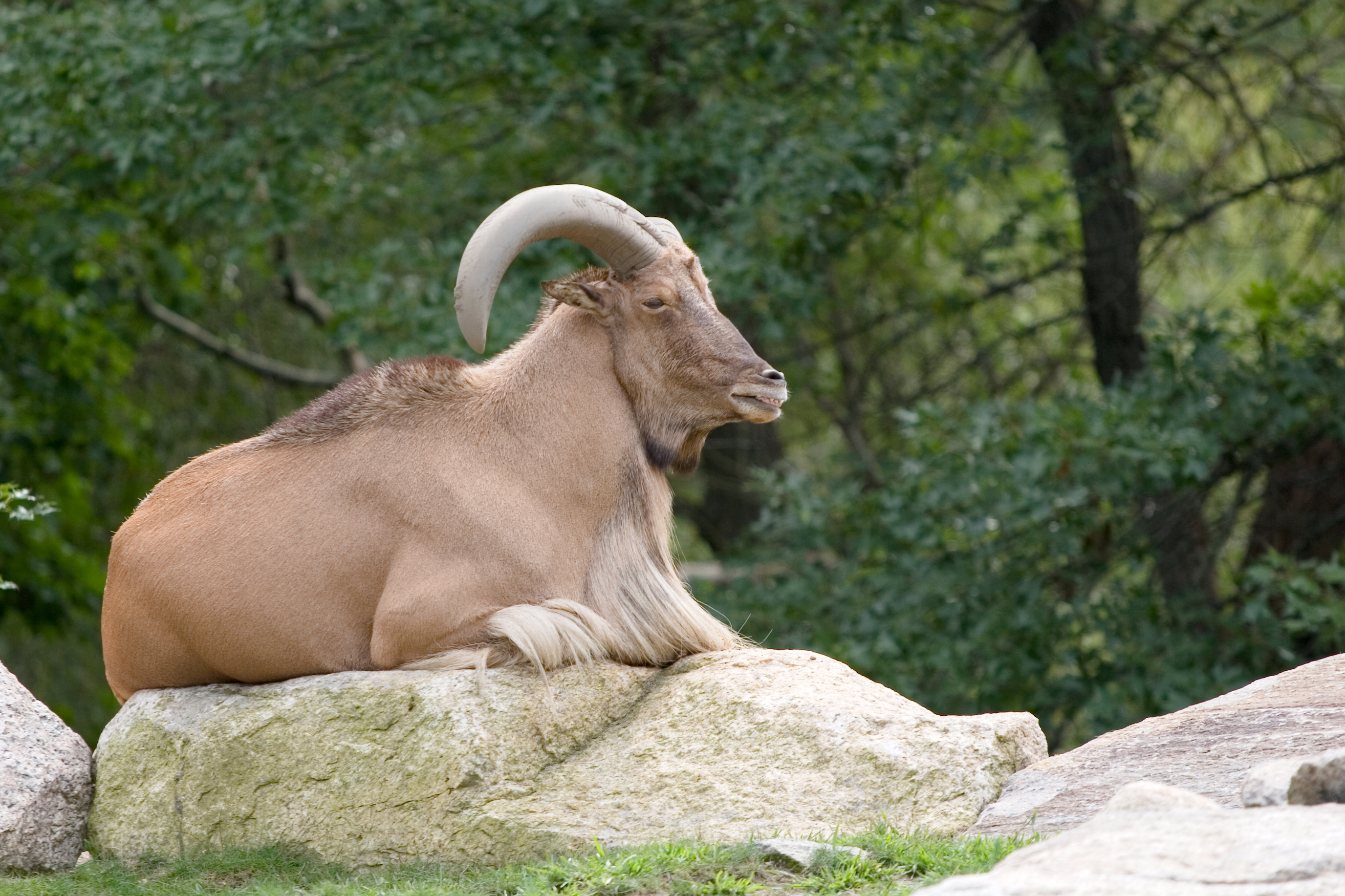 A Barbary Sheep at Roger Williams Park Zoo, USA.